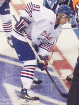 Self taken photo. September 22nd, 2006.